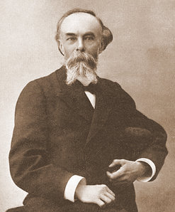 Camille Biot, French physician (1850–1918), which described Biot's respiration